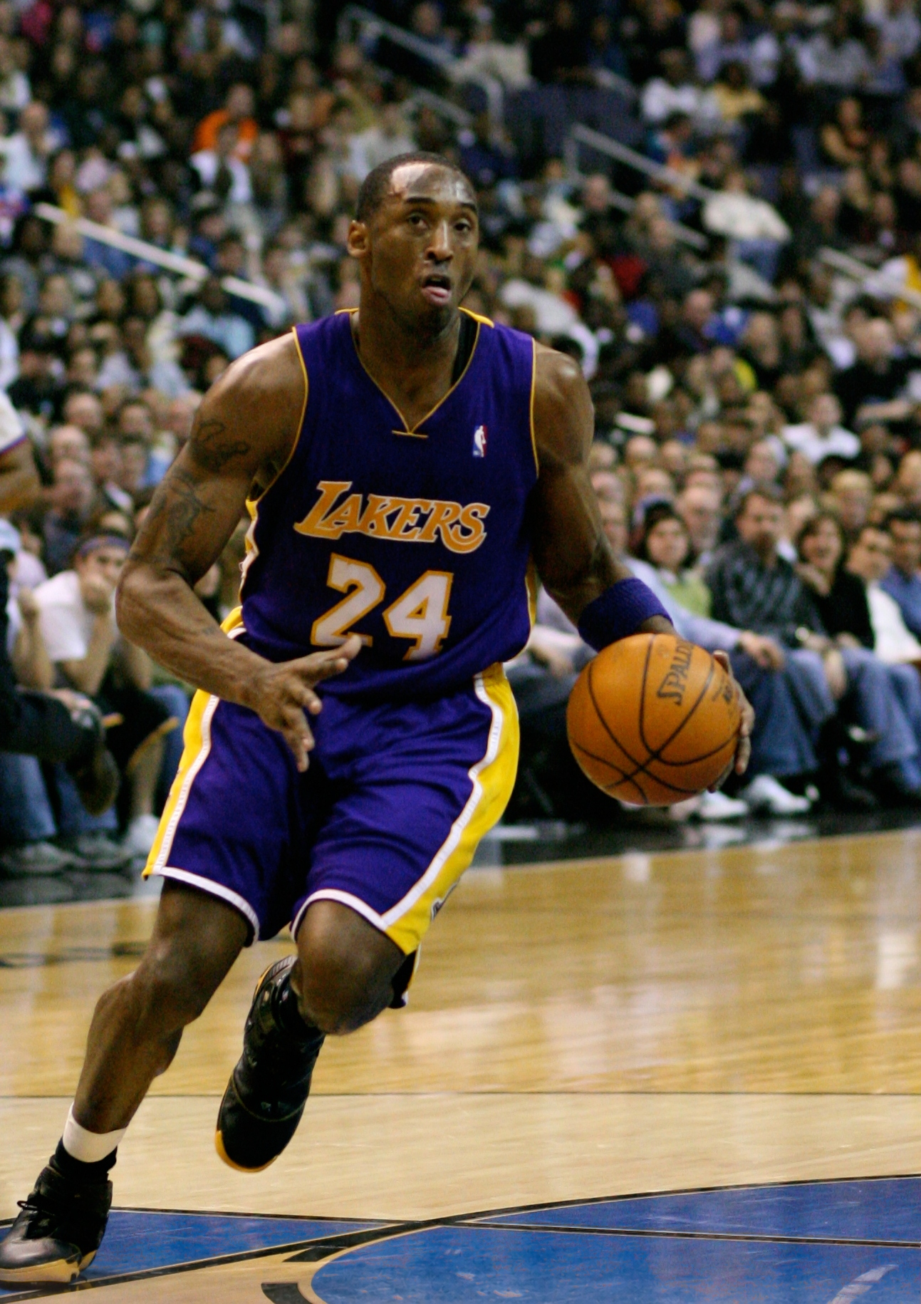 Kobe Bryant of the Los Angeles Lakers drives to the basket against the Washington Wizards in Washington, D.C., USA on February 3, 2007